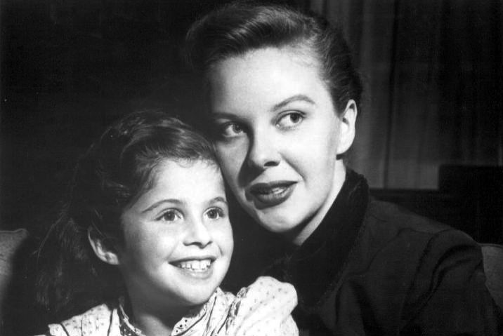 Photo montage of actress Mary Stuart, who celebrated 25 years of playing the character Joanne on the daytime drama Search for Tomorrow in 1976. Top photo is from the first broadcast of the show in 1951. Stuart is shown with Lynn Loring, who played her daughter, Patti. Bottom left photo is from the show in 1952, and bottom right is a photo of Stuart in 1976.